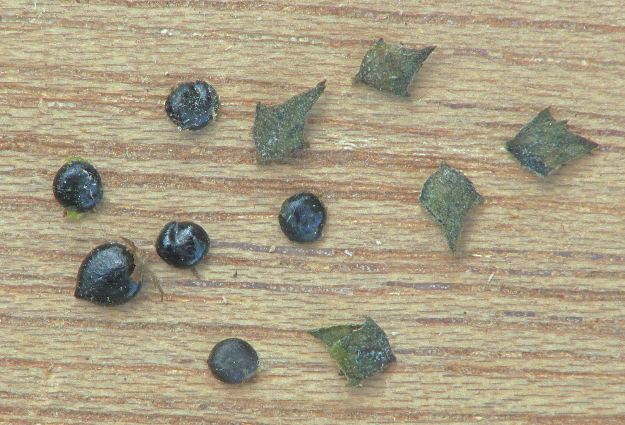 Atriplex patula fruits with bracts and without, length largest fruit without bracts 2.5 mm